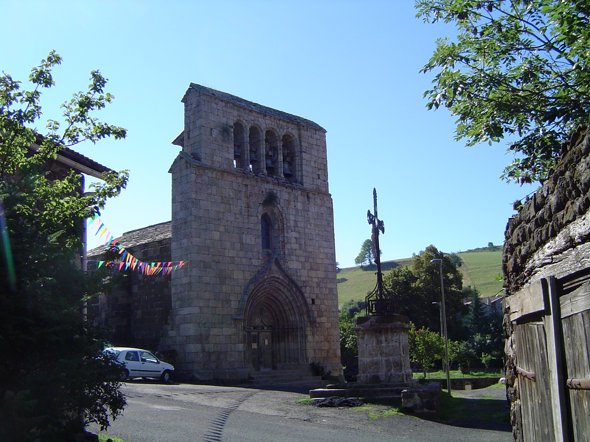 Saint-Martin-de-Fugères, l'eglise.